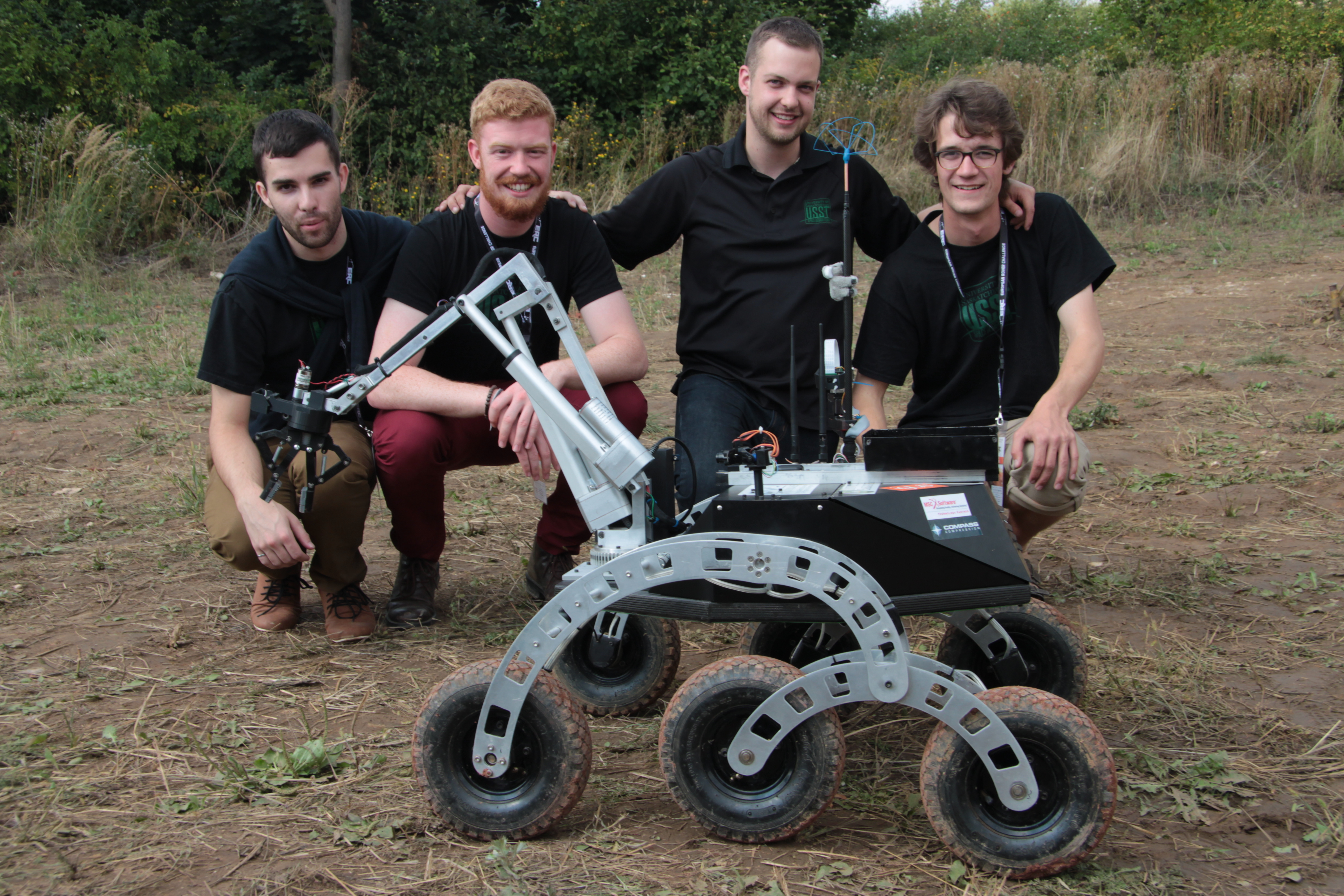 European Rover Challenge 2015, 5-6 September, Podzamcze near Chęciny near Kielce, Poland. First day of the competition, the winning rover built and run by a team from University of Saskatchewan, Canada. Rover and the team after one of the tasks, at the competition field.